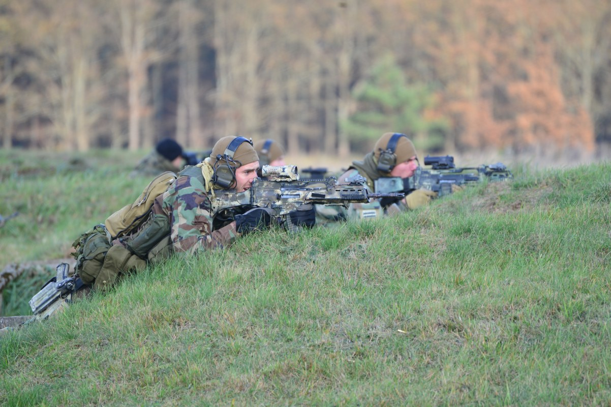 Latvian soldiers during the exercise in Poland.